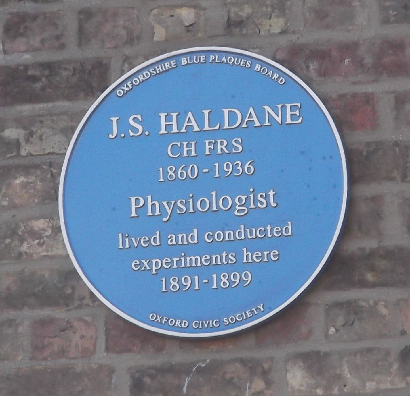 The Haldane family lived at 11 Crick Road, north Oxford, England, and the house is marked with a blue plaque. The family included the physiologist and father John Scott Haldane (1860–1936) and his wife Louisa,[9] together with their children, the geneticist and evolutionary biologist J. B. S. Haldane (Fellow of New College, Oxford), and the novelist Naomi Mitchison.